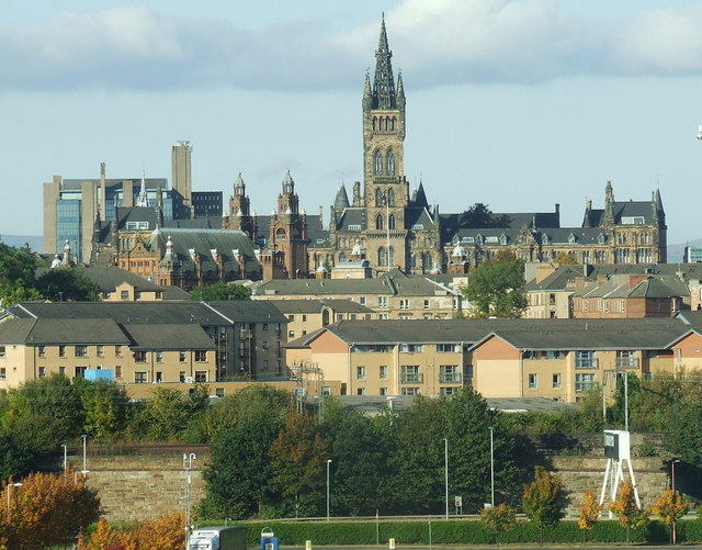 Glasgow University The main building and tower on Gilmorehill. Viewed from the top floor of the Science Centre. The gantry at bottom right is on the A814 Clydeside Expressway.